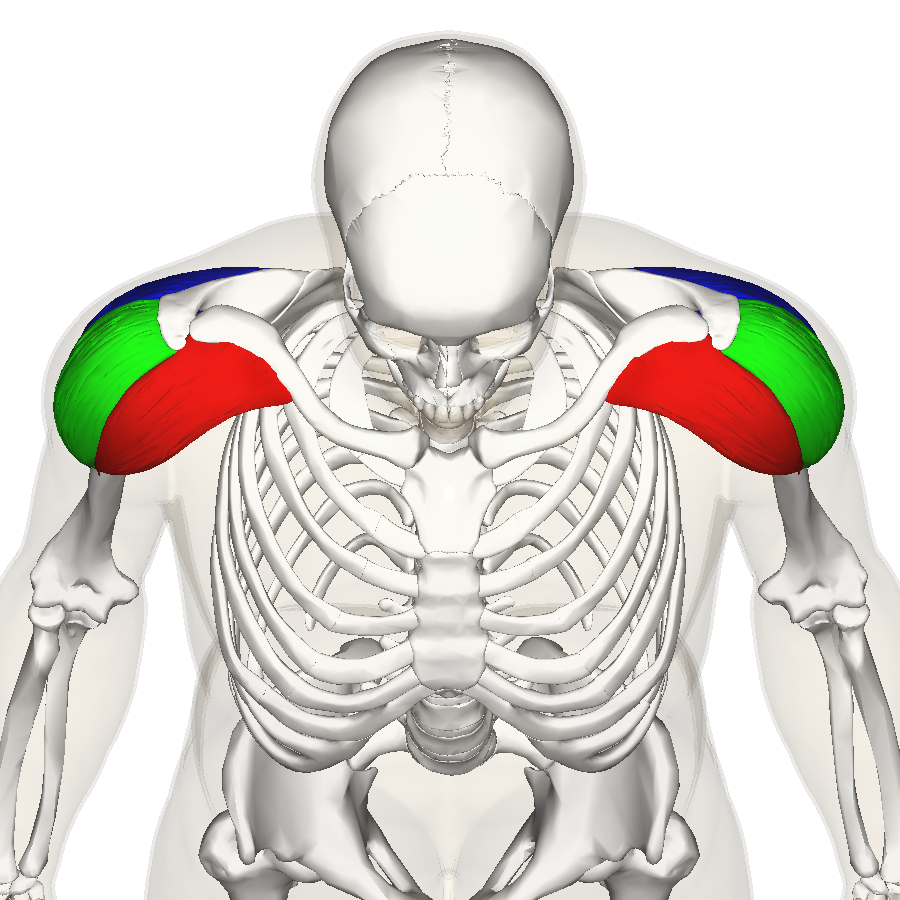 Deltoid muscle. Clavicular part of deltoid Acromial part of deltoid Spinal part of deltoid